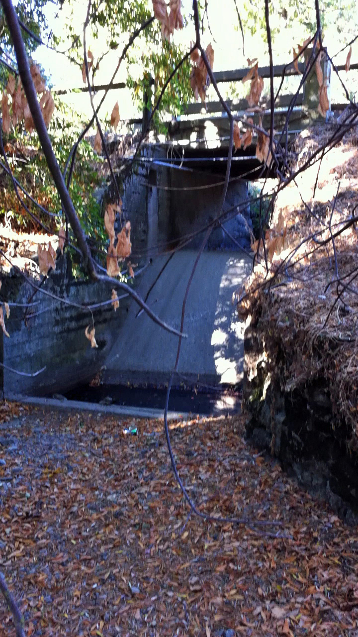 Adobe Creek (near Los Altos, California) This drop beneath the Hidden Villa bridge is one of several barriers to steelhead trout spawning runs on Adobe Creek